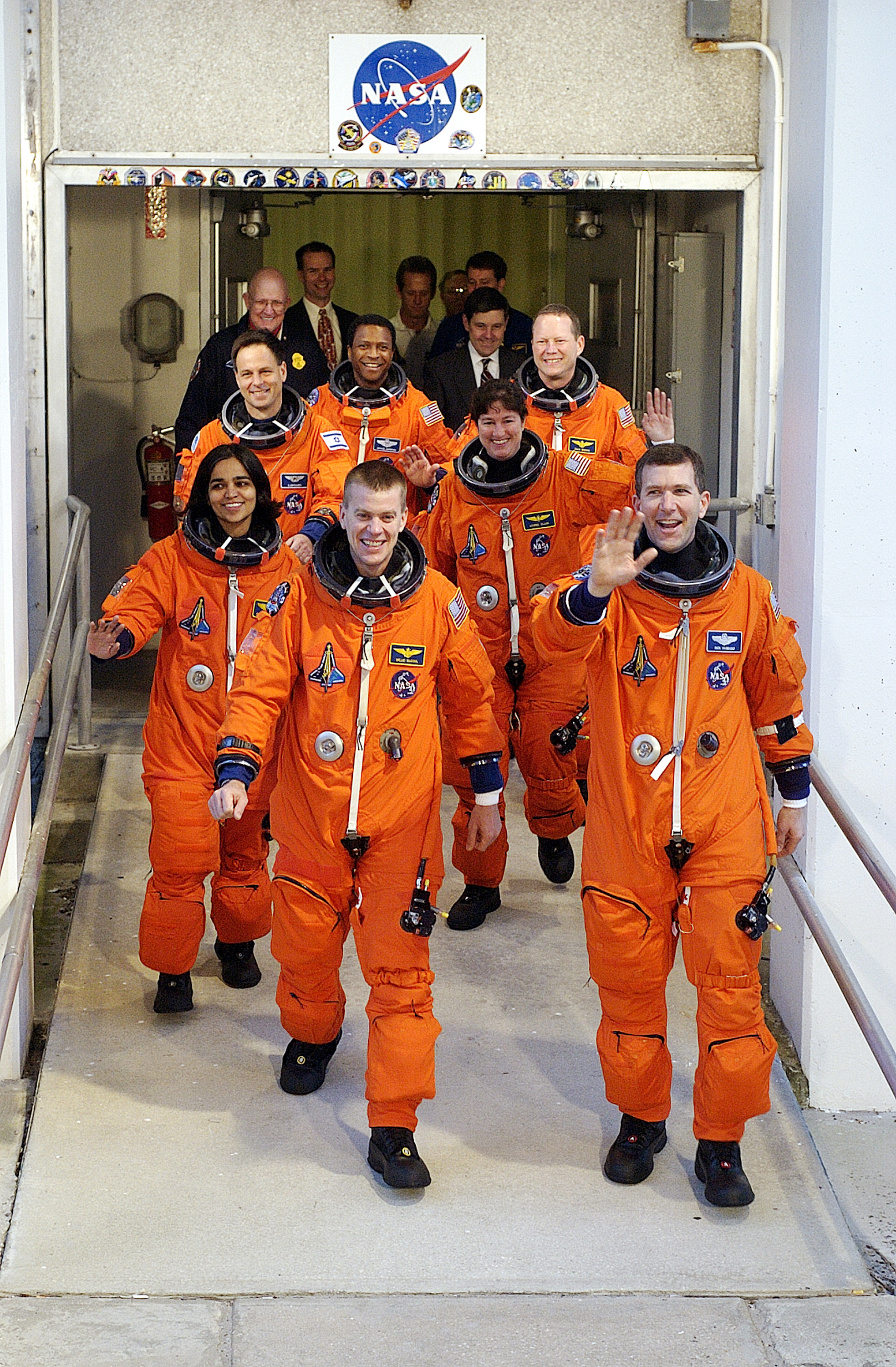 The STS-107 crew, waving to onlookers, exits the Operations and Checkout Building on their way to Launch Pad 39A for liftoff. Leading the way are Pilot William "Willie" McCool (left) and Commander Rick Husband (right). Following in the second row are Mission Specialists Kalpana Chawla (left) and Laurel Clark; in the rear are Payload Specialist Ilan Ramon, Payload Commander Michael Anderson and Mission Specialist David Brown. Ramon is the first astronaut from Israel to fly on a Shuttle.